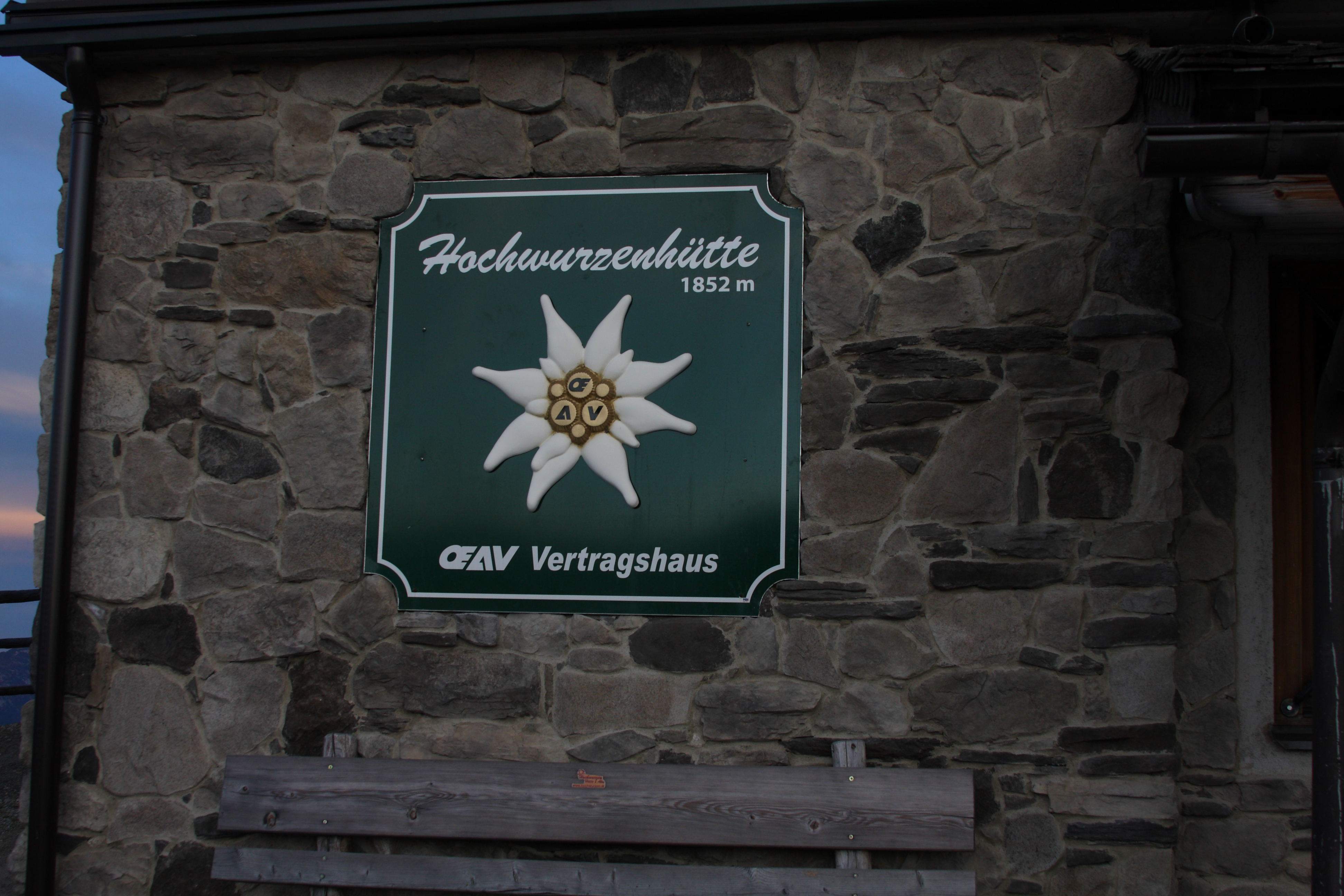 Hochwurzenhütte , Styria, Austria